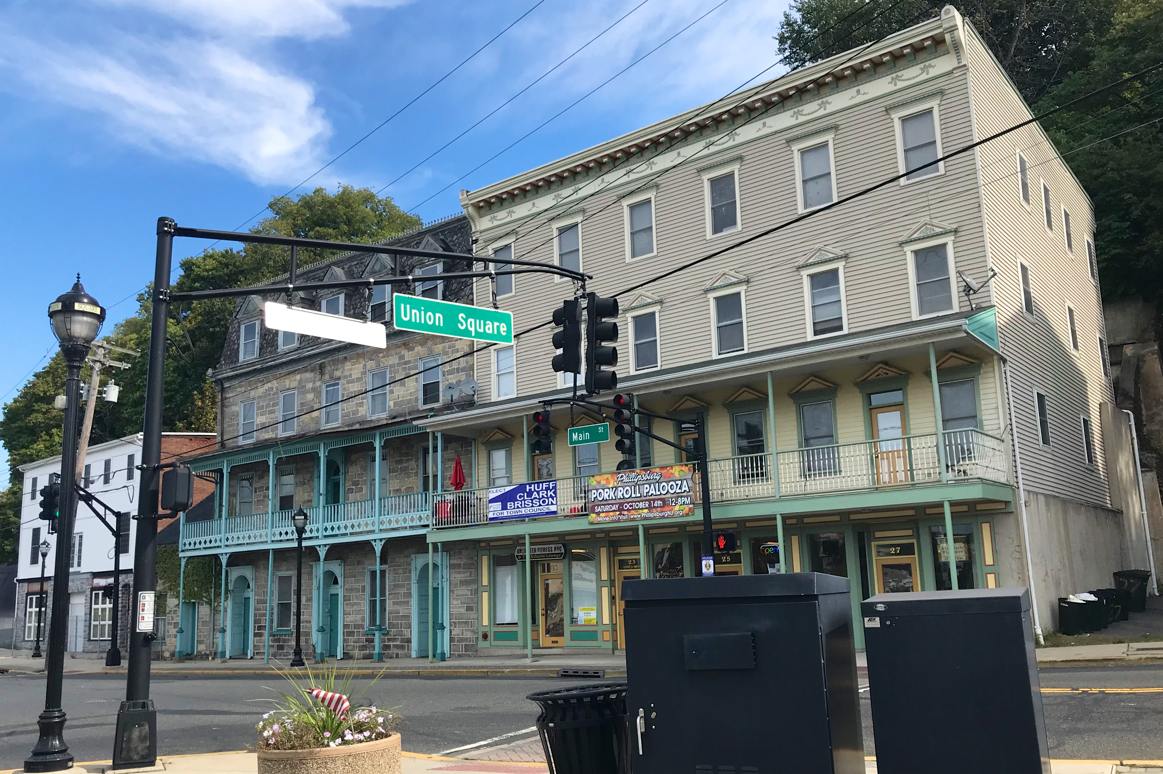 Two historic buildings of the Phillipsburg Commercial Historic District in Phillipsburg, New Jersey. The four story building on the left, 17 Union Square, was historically the Union Hotel, built 1811, key contributing property #27. On the right, 21-27 Union Square, is contributing property #26.